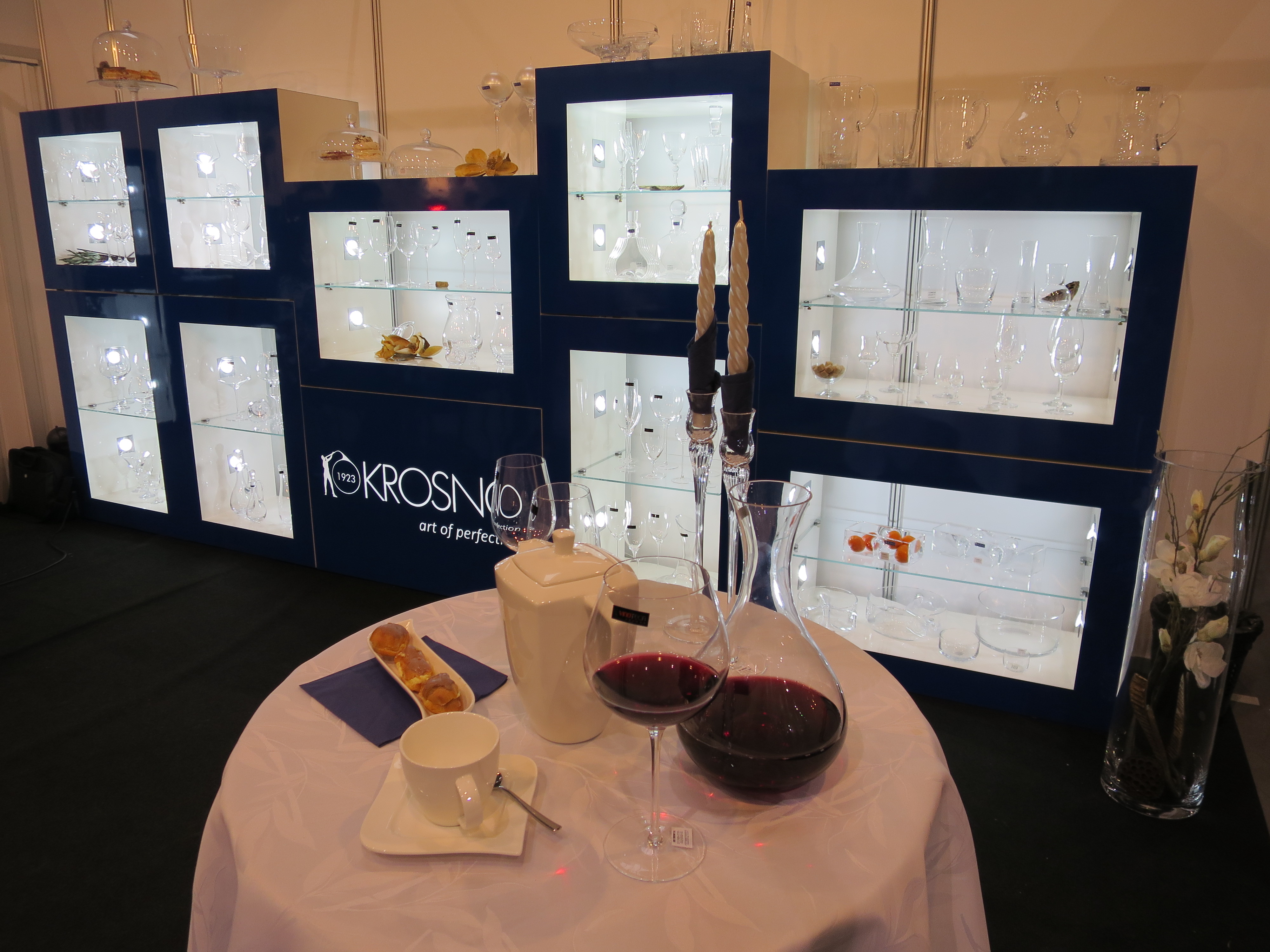 Szkło Krosno The making of this document was supported by Wikimedia Polska Association, within Wikigrant no. WG 2015-48. English | polski | +/−